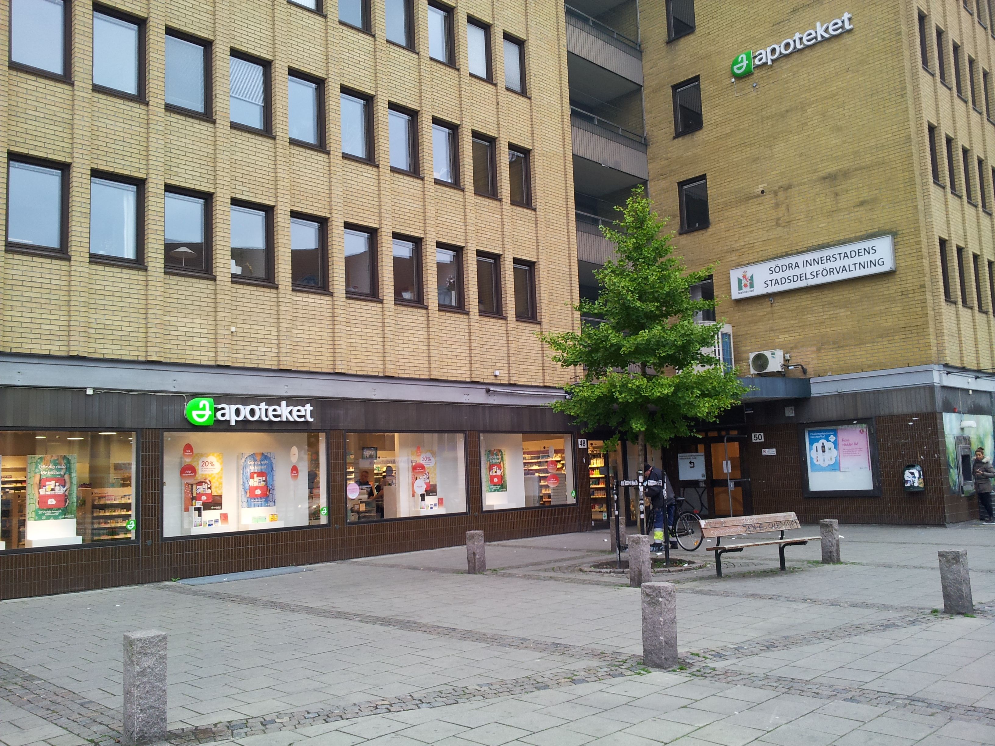 The district of Södra Innerstaden's administrational building in Malmö